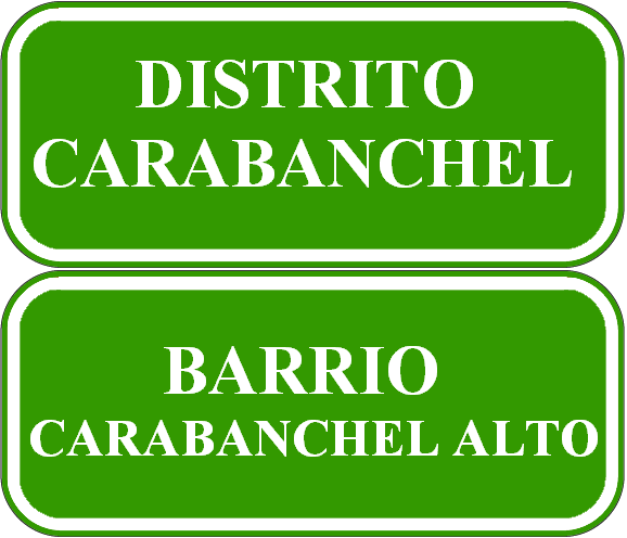 IndicadorBarrioCarabanchelAlto